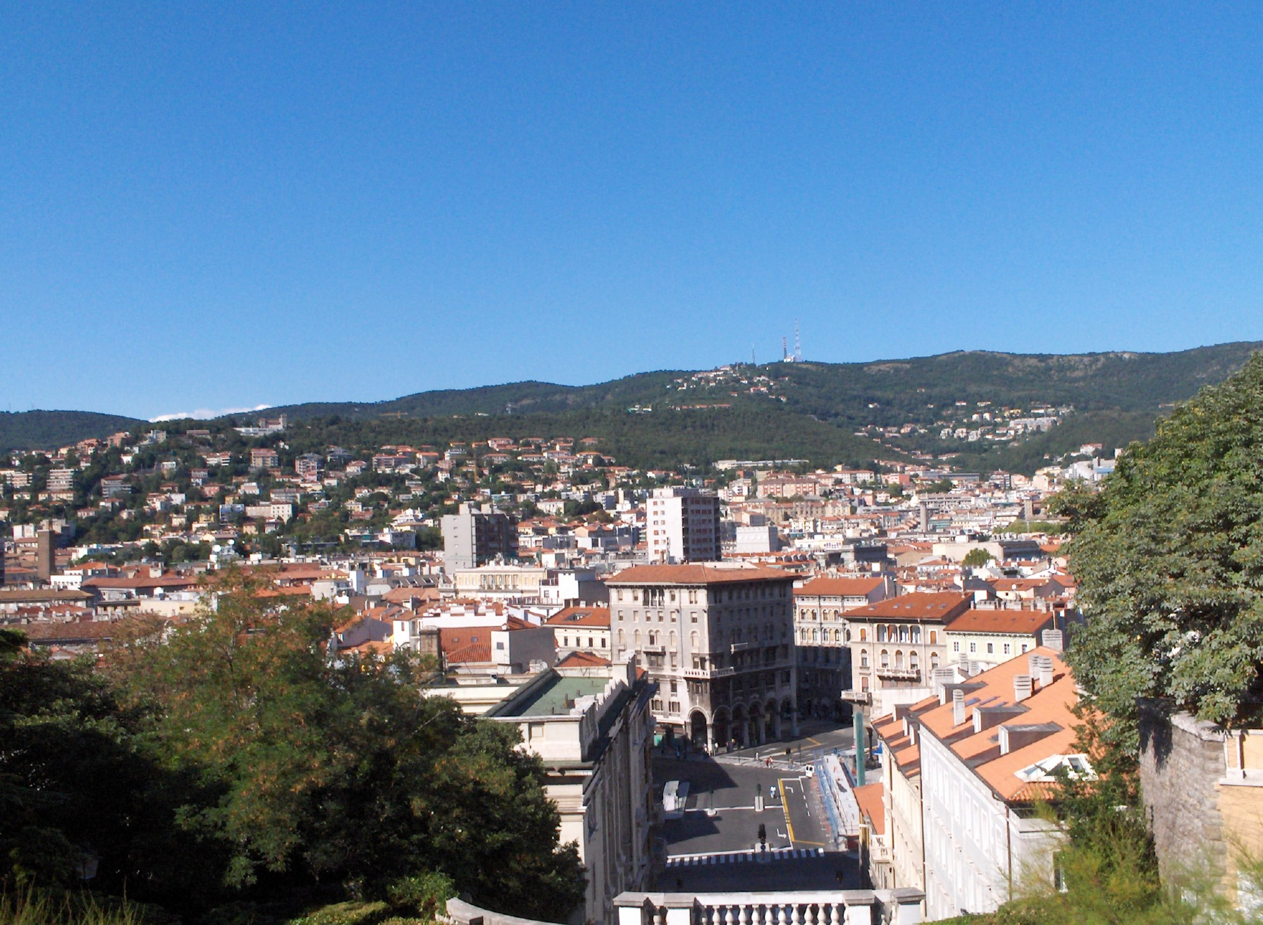 Partial view of Trieste from Colle di San Giusto